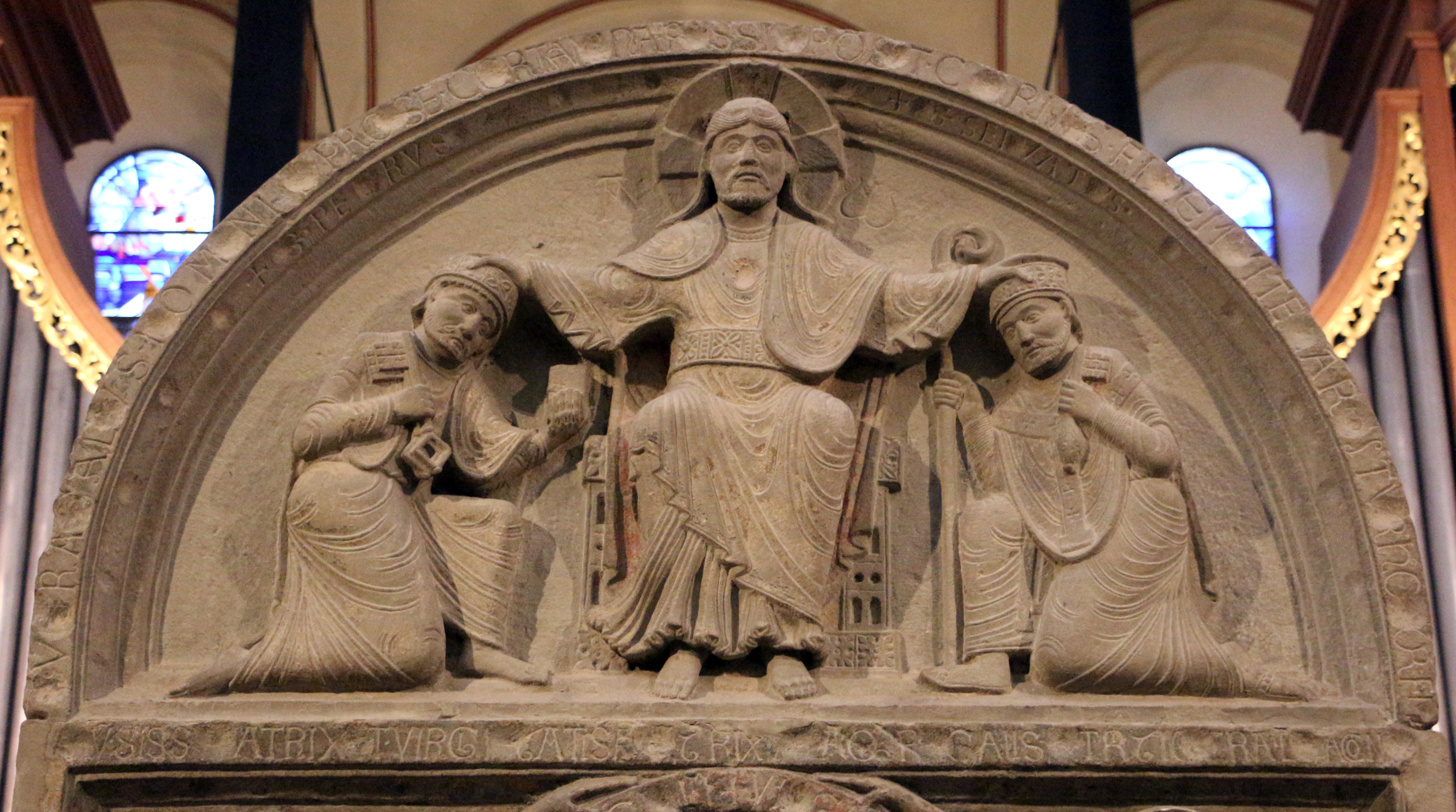 Detail of the Westwork altar in the Basilica of Saint Servatius in Maastricht, the Netherlands. The top part of the Westwork altar screen shows a relief of Christ blessing Saint Peter (to his right) and Saint Servatius (left).